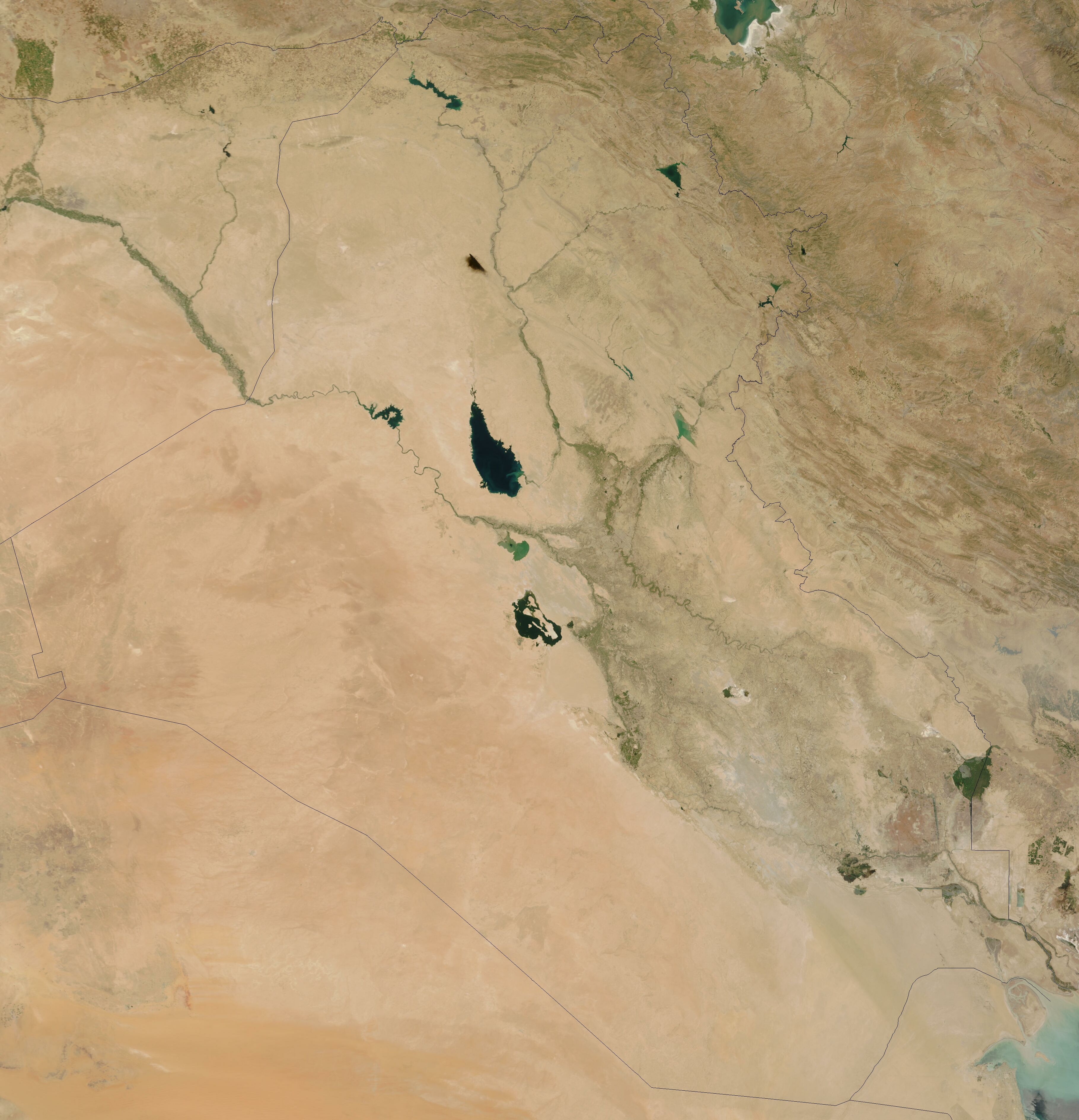 Satellite image of Iraq in August 2003. Cropped image, original taken from NASA's Visible Earth Česky: Satelitní snímek Iráku ze srpna 2003